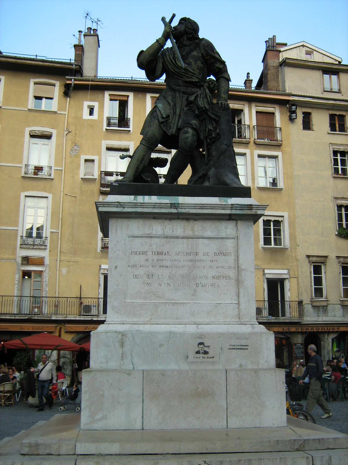 Photo of the Statue of Pierre Terrail Seigneur de Bayard in the Place St-André in Grenoble, France. 1823